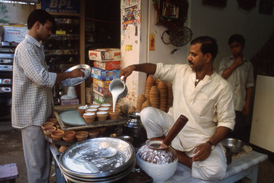 Lassi seller in Varanasi, India